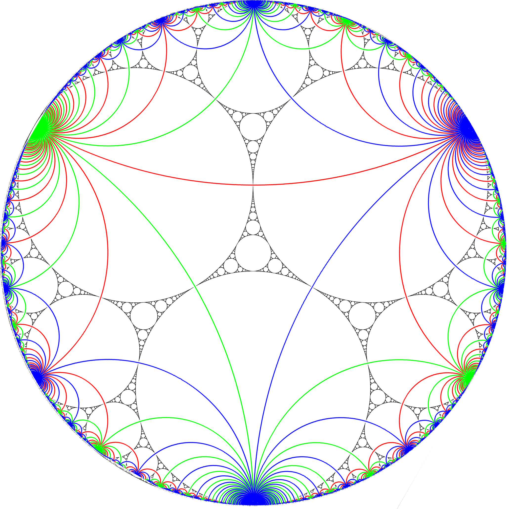 File:Apollonian_gasket.svg with File:Iii_symmetry_mirrors.png overlay showing symmetry